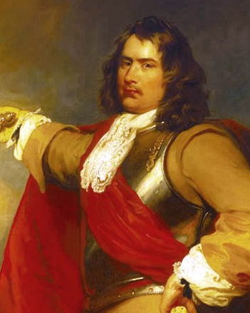 Robert Blake, cropped from a larger painting by Henry Perronet Briggs